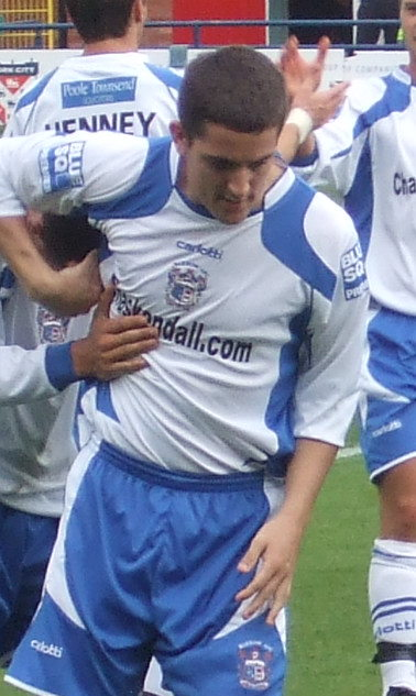 Andy Bond playing for Barrow against York City at Bootham Crescent, York on 25 August 2008